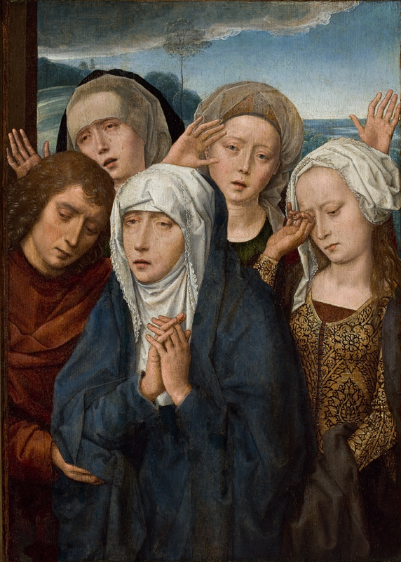 The Mourning Virgin with St. John and the Pious Women from Galilee. This panel is the right wing of the Lachovsky-Bardi Diptych. The left wing, showing a Deposition, was formerly housed in the Sickles collection, Paris. There are several copies of both panels (Groeningenmuseum, Bruges; Bargello Museum, Florence, etc.), including one at the Münch's Alte Pinakothek, which Friedländer once thought to be the original (1928), before he knew the panel currently housed in São Paulo. The composition is quite similar to that of Memling's Granada Diptych and both works are freely inspired by a lost prototype by Hugo van der Goes, known through several old copies. Opinions vary about the attribution and dating of the painting. Friedländer (1937, 1939, 1950), Bardi (1956), Carvalho de Magalhães (1995) and Luiz Marques (1998) have ascribed the artwork, with more or less reservations, to Memling, but De Vos (1994) believes the painting to be a workshop product, as well as the Granada version. In the opinion of Carvalho de Magalhães, the Lamentation of the Museu de Arte de São Paulo is of superior quality than the one in Granada. As what comes to date, Friedländer believes that both the Granada and the São Paulo panels must date from the same period (c. 1485). De Vos believes the São Paulo version to be older (c. 1475). Baldass and Camesasca are favorable to a later date.